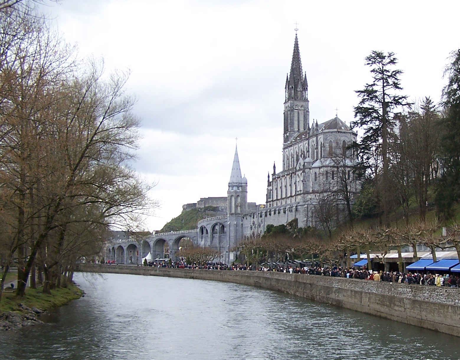 Sanctuary of Our Lady of Lourdes, taken from a bridge over the river Gave. Kodak DX6490 digital camera.